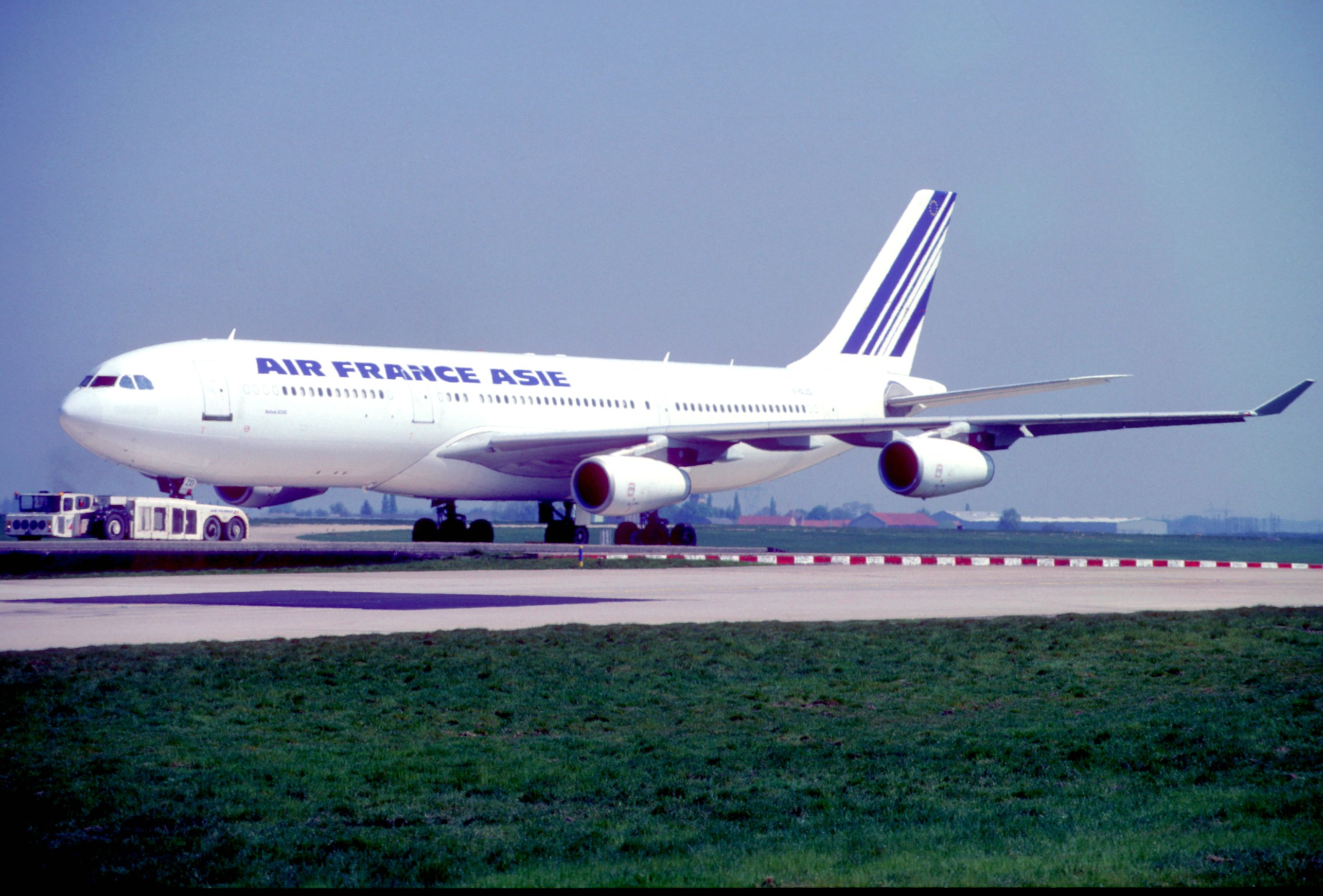 This Airbus A340-211 took its first flight on July 23, 1993...(c/n 31) 11/10/1993 Air France F-GLZD 10/11/1998 Air Tahiti Nui F-OITN stored at CHR 02/2003 27/05/2003 Air Bourbon F-OITN ceased operations 26/11/04 - stored at BRU 13/04/2005 Air Europa EC-JGU named Pedro Duque 13/03/2007 ConViasa YV1004 named Simón Bolivar El Libertador